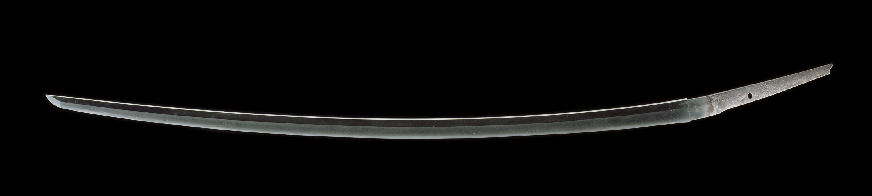 The haki-ura side of Mikazuki Munechika.